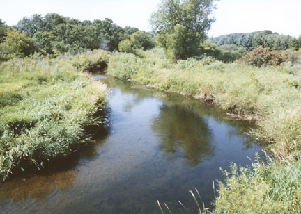 Photograph by Tim Kiser. The Wing River near Verndale in Wadena County, 21 August 2004.